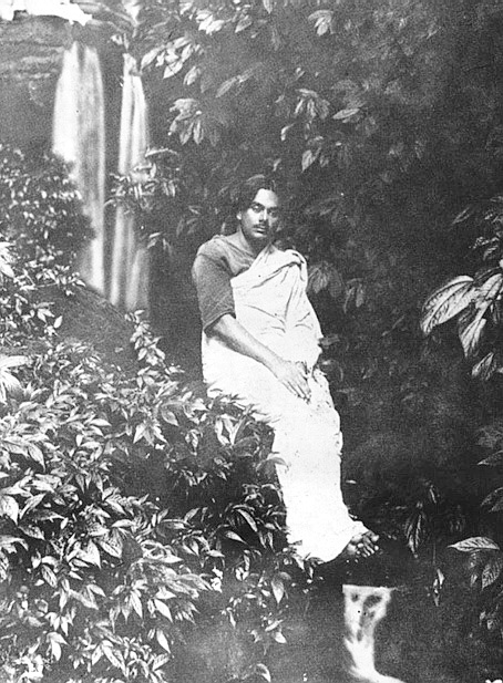 Kazi Nazrul at sitakunda chandranath hill in 1929 Uploaded by Rahat Rahim